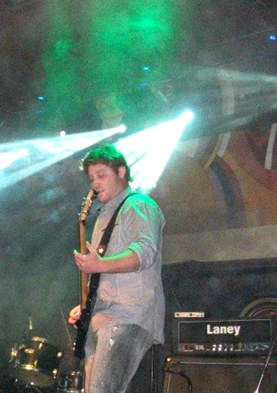 The bass player Pablo Grandi of Black Roses band on Stage